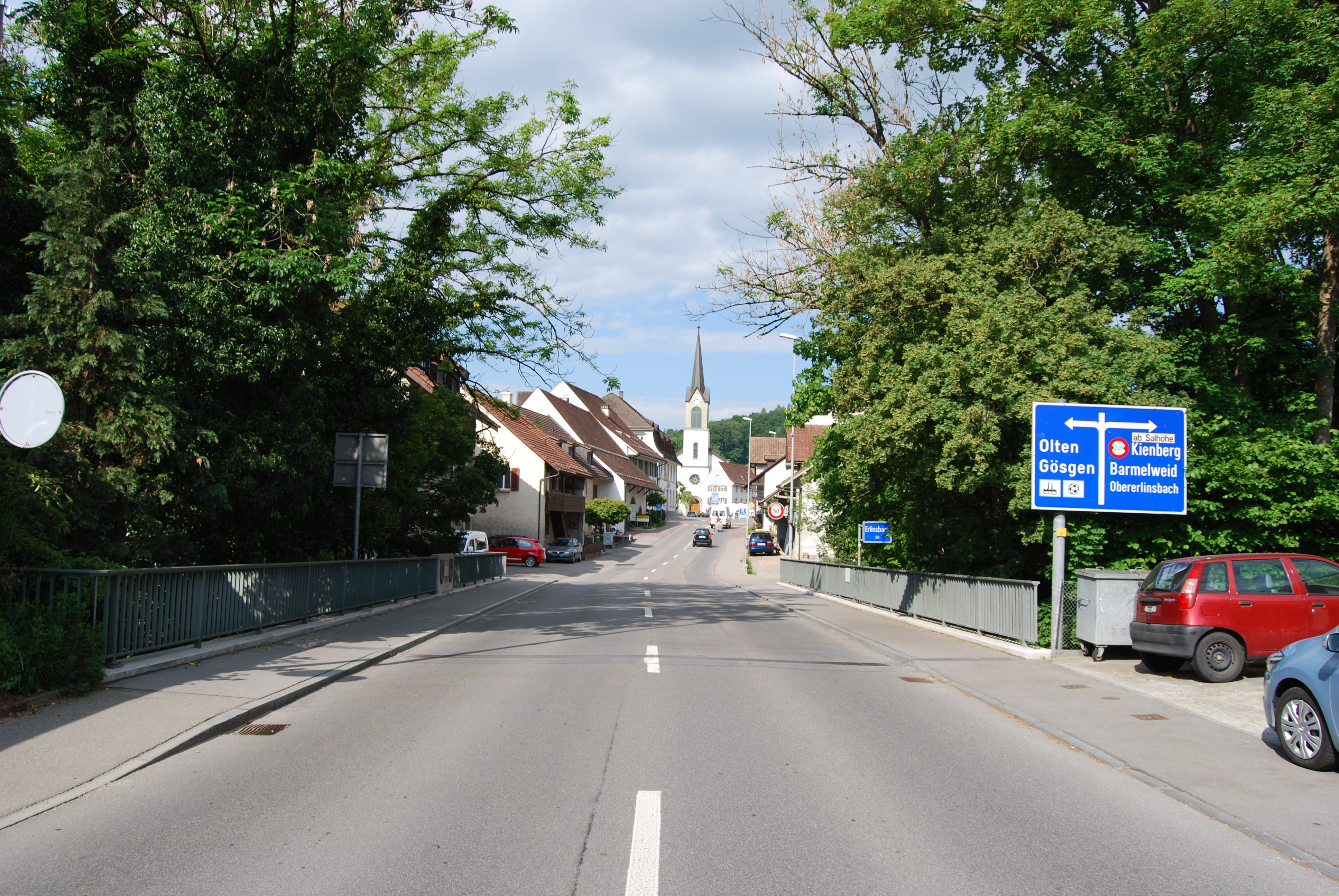 Erlinsbach, canton of Solothurn, seen from the argovian Erlinsbach, SwitzerlandEsperanto: Erlinsbach, Kantono Soloturno, vidita de la argovia Erlinsbach, Svislando